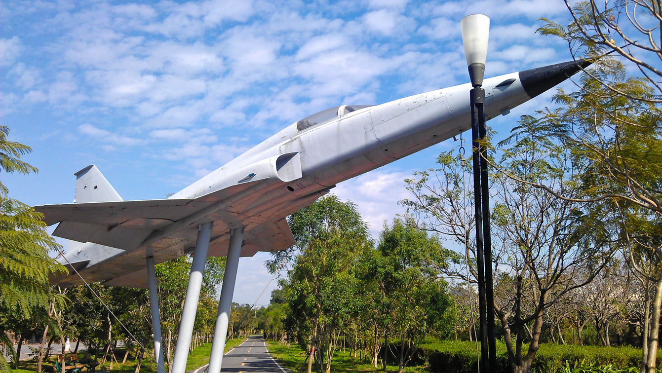 Northrop F-5 of ROCAF over a bicycle path in Taiwan.